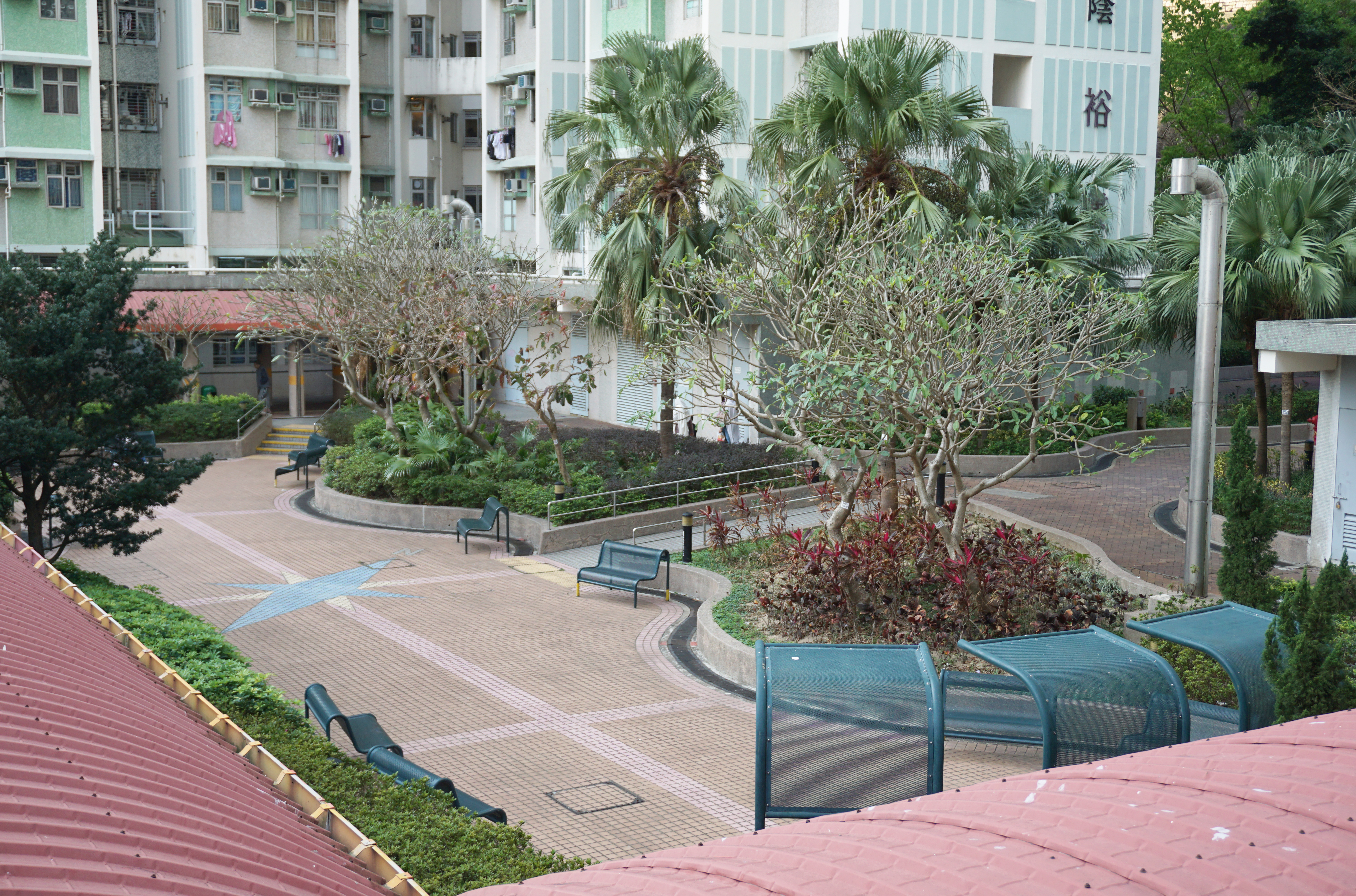 Shek Yam East Estate in Shek Yam, Hong Kong.